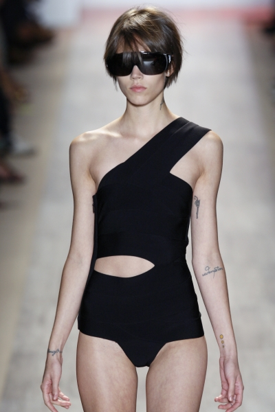 Freja Beha Erichsen, Danish model